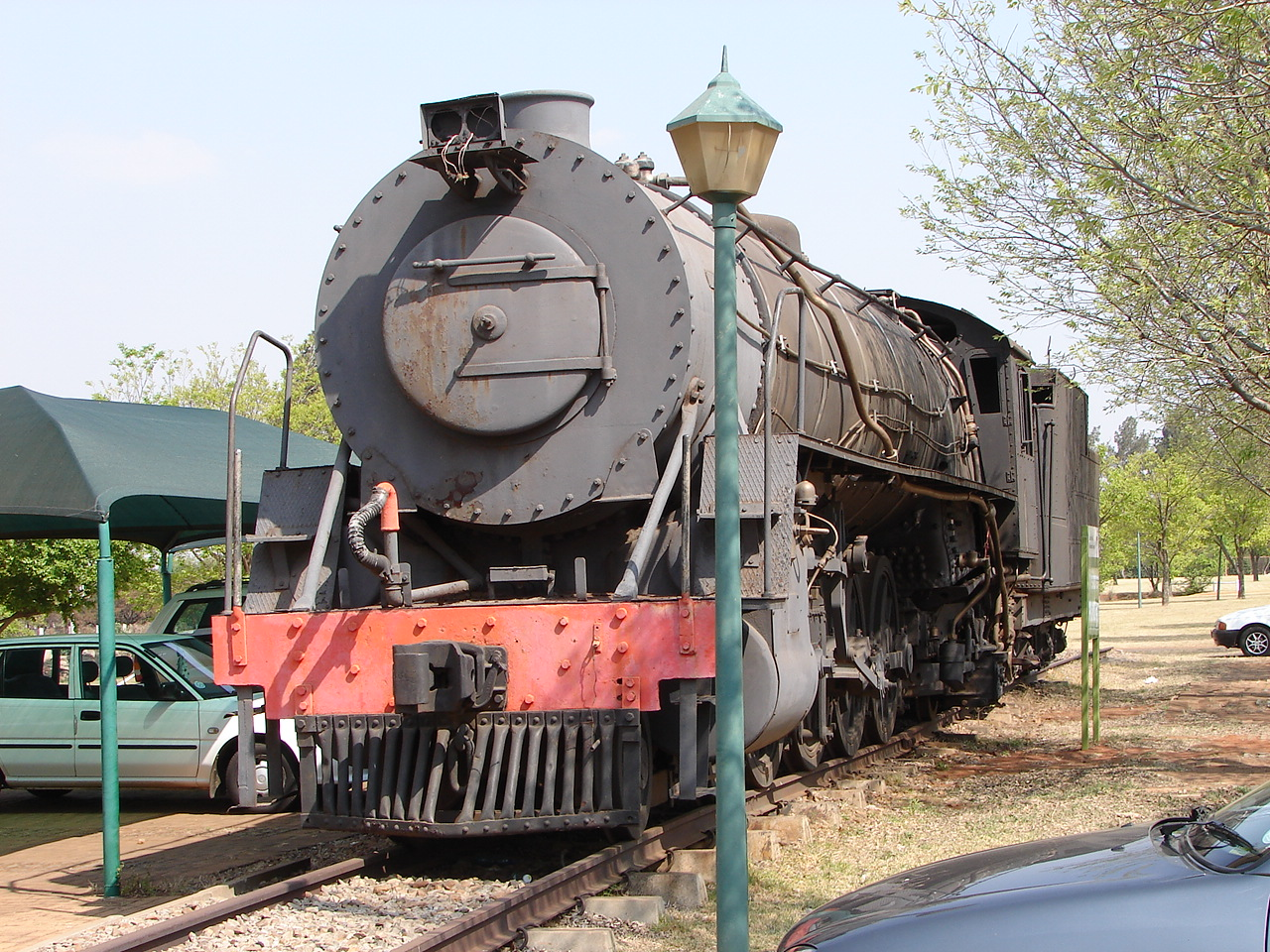 SAR Class 15CA 2802 (4-8-2)Builder's Number: Breda 2237Location: Kaalfontein, Gauteng